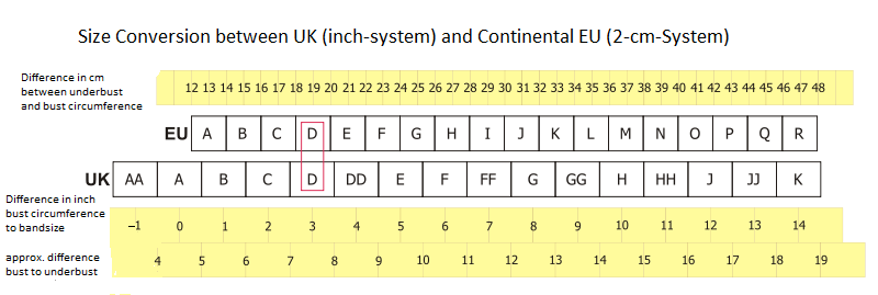 shows conversion of cup sizes between british and european system